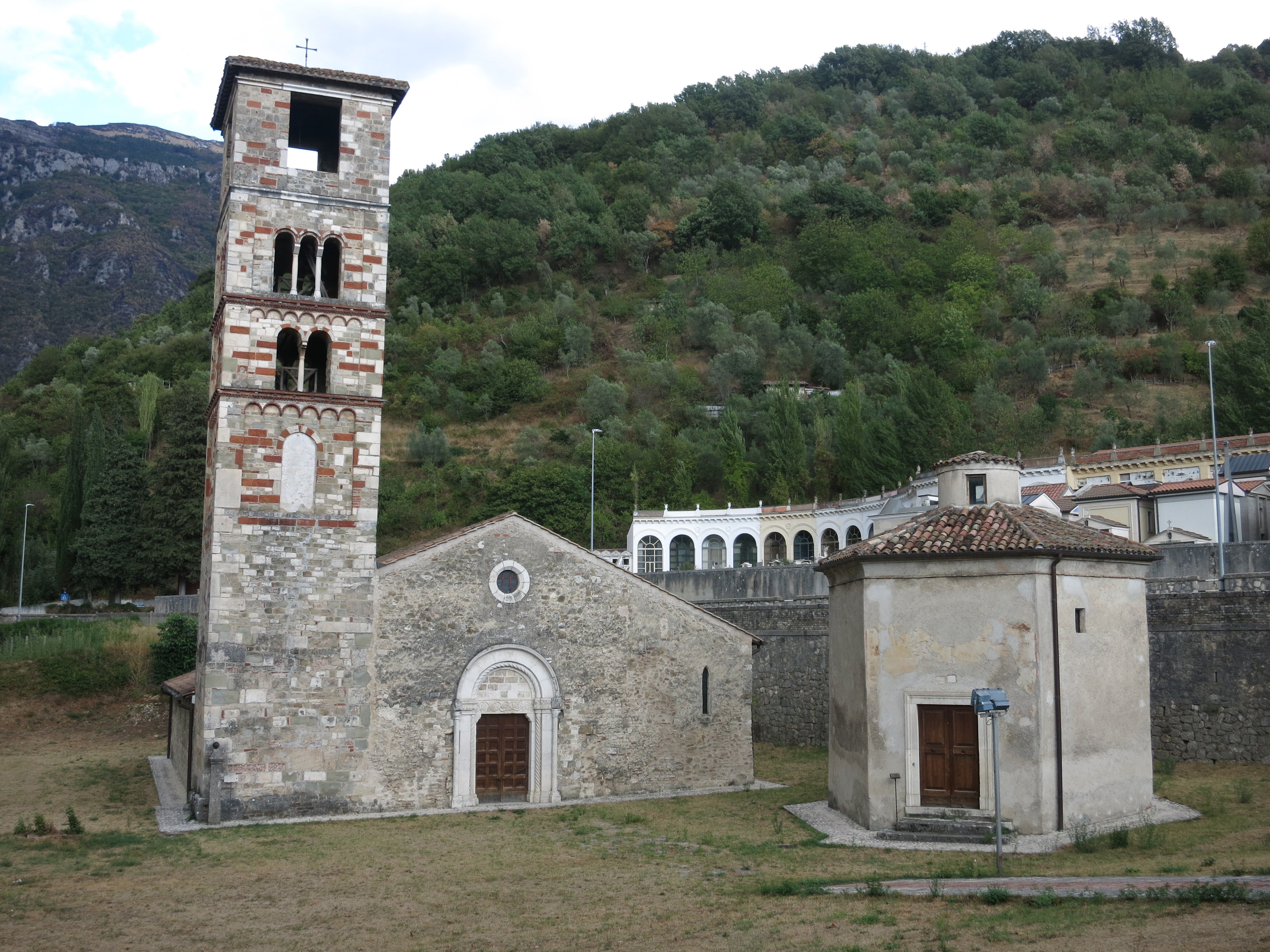 Saint Mary "Extra Moenia" church - Antrodoco (province of Rieti, central Italy)